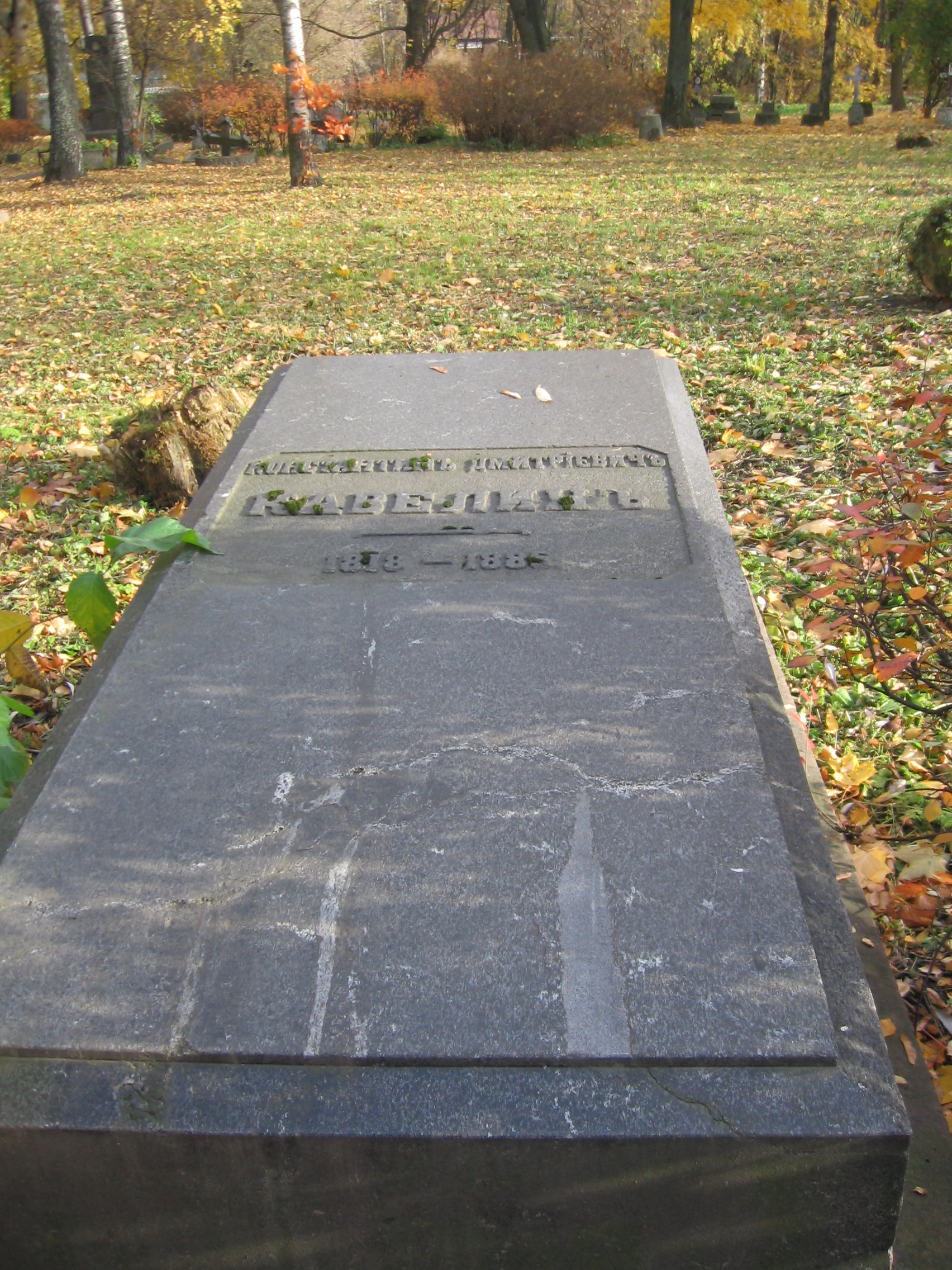 Grave of Konstantin Kavelin